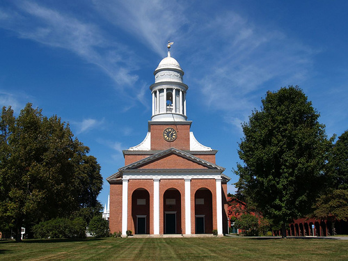 First Church of Christ, (Bullfinch Church), Lancaster, Massachusetts